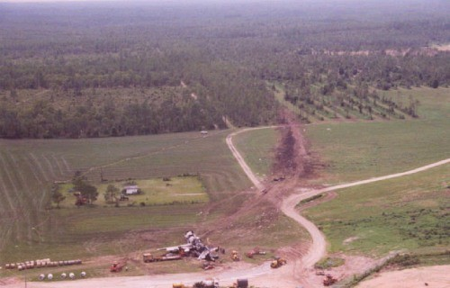 Fedex ExpressFlight 1478（N497FE）wreckage .jpg